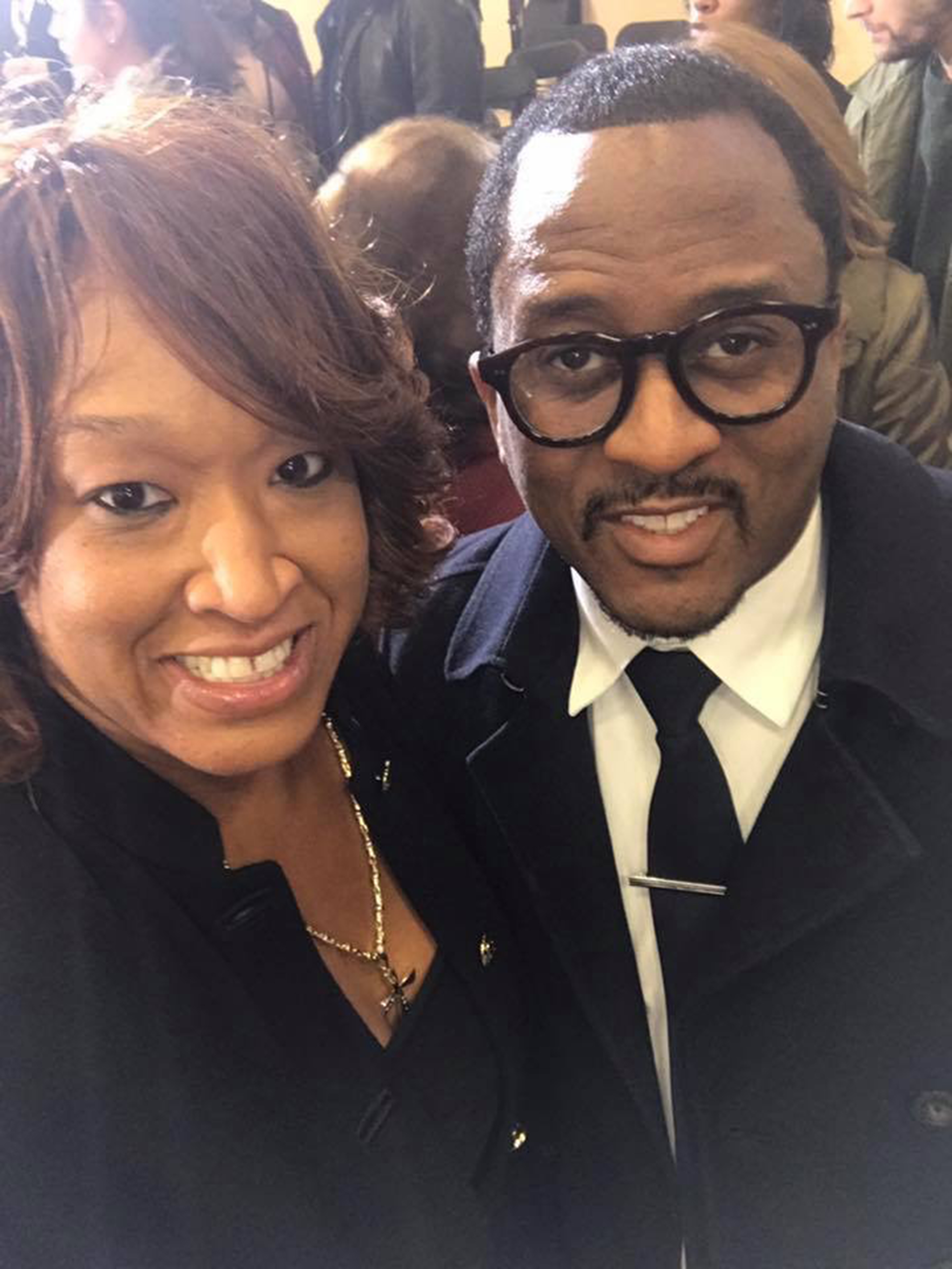 Brian Banks with Sherry Gay-Dagnogo